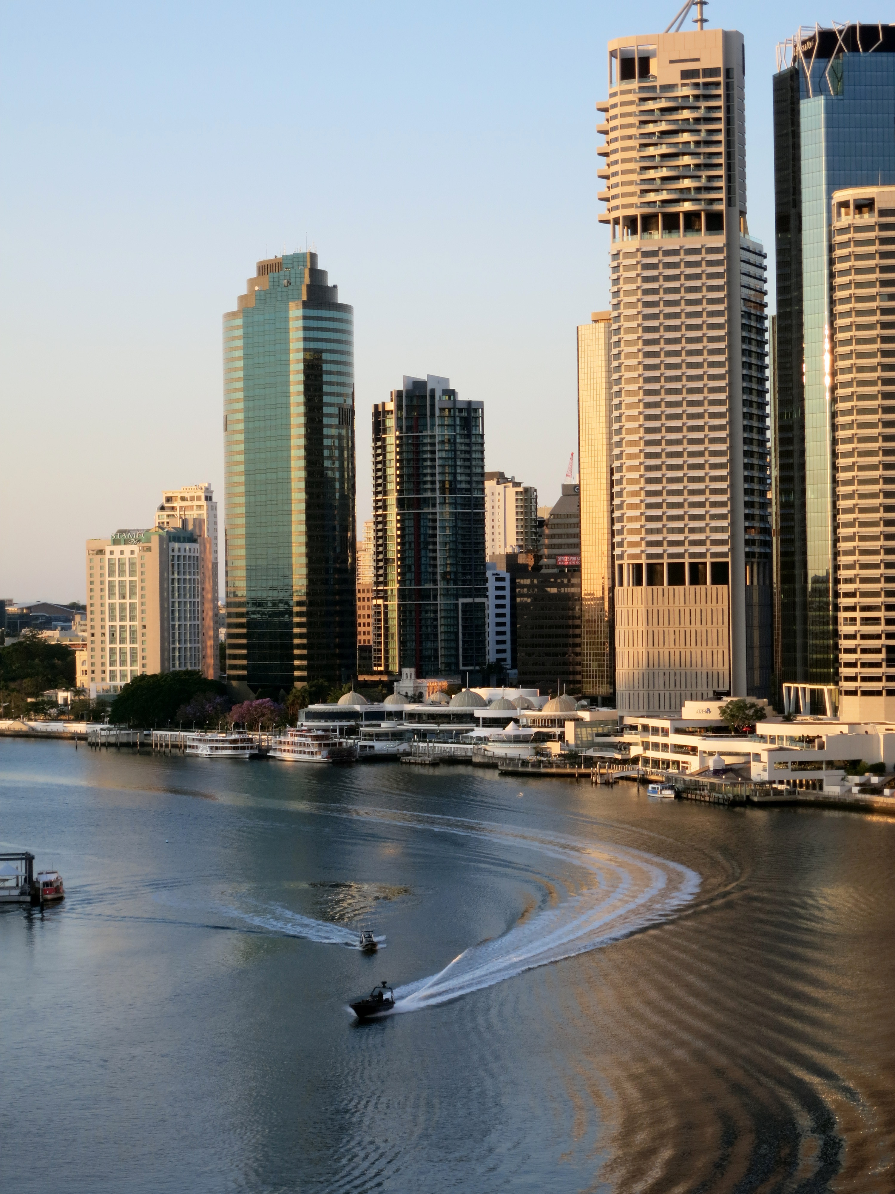 Police boats on the Brisbane River on the day before the start of the 2014 G20 Leaders Summit